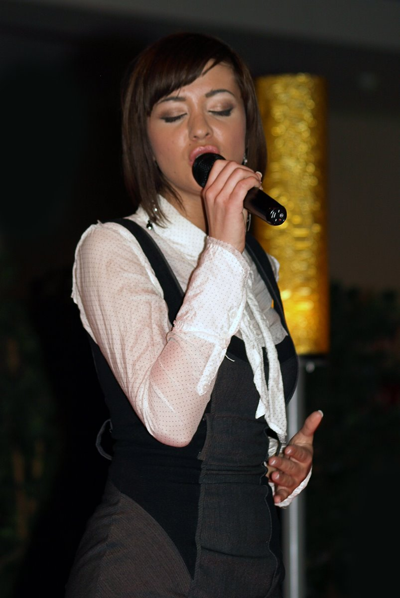 Sweet Years opening in Maribor 2008